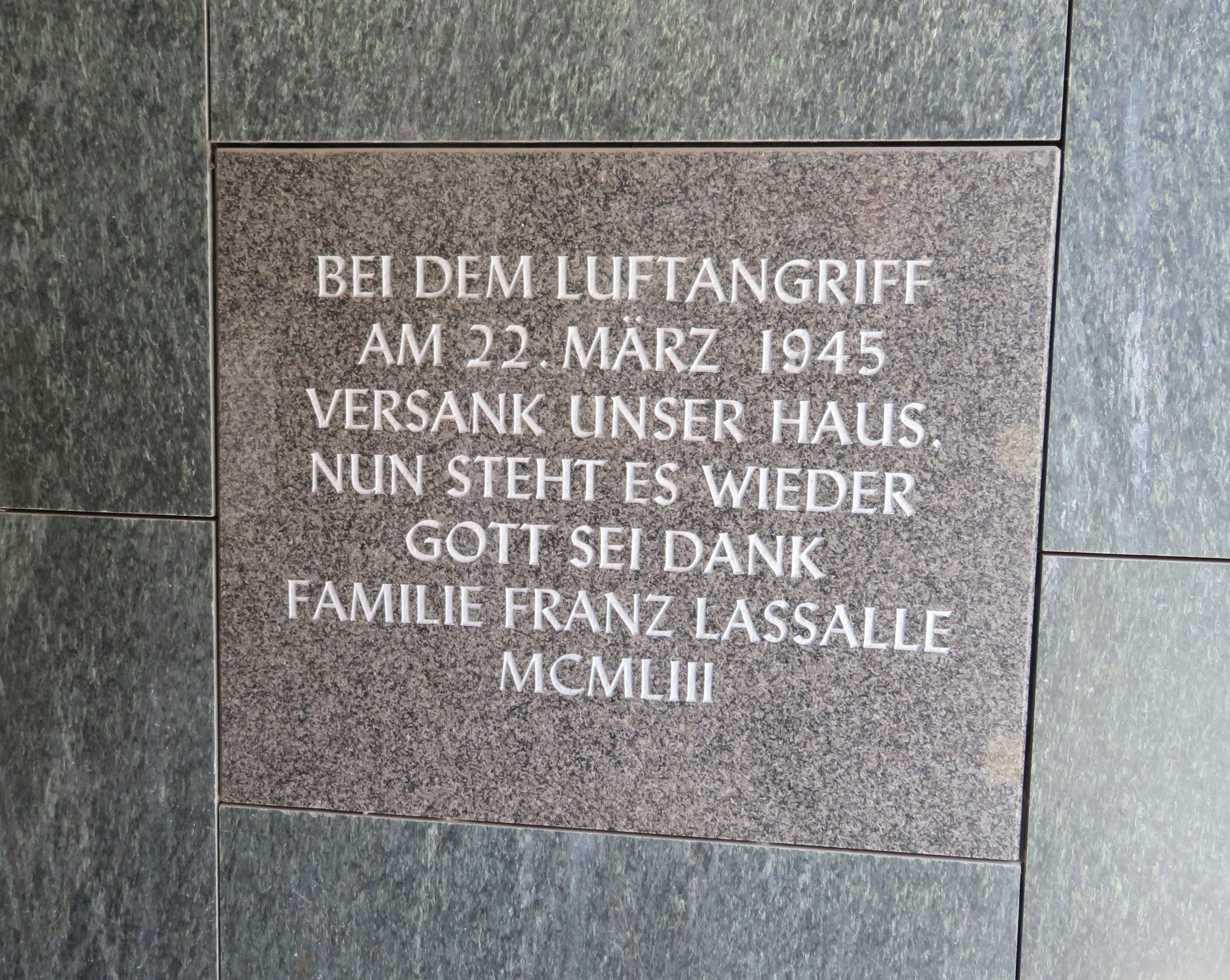 Conmemorative plaque, Moritzberg, Dingworth Street, City of Hildesheim, Germany